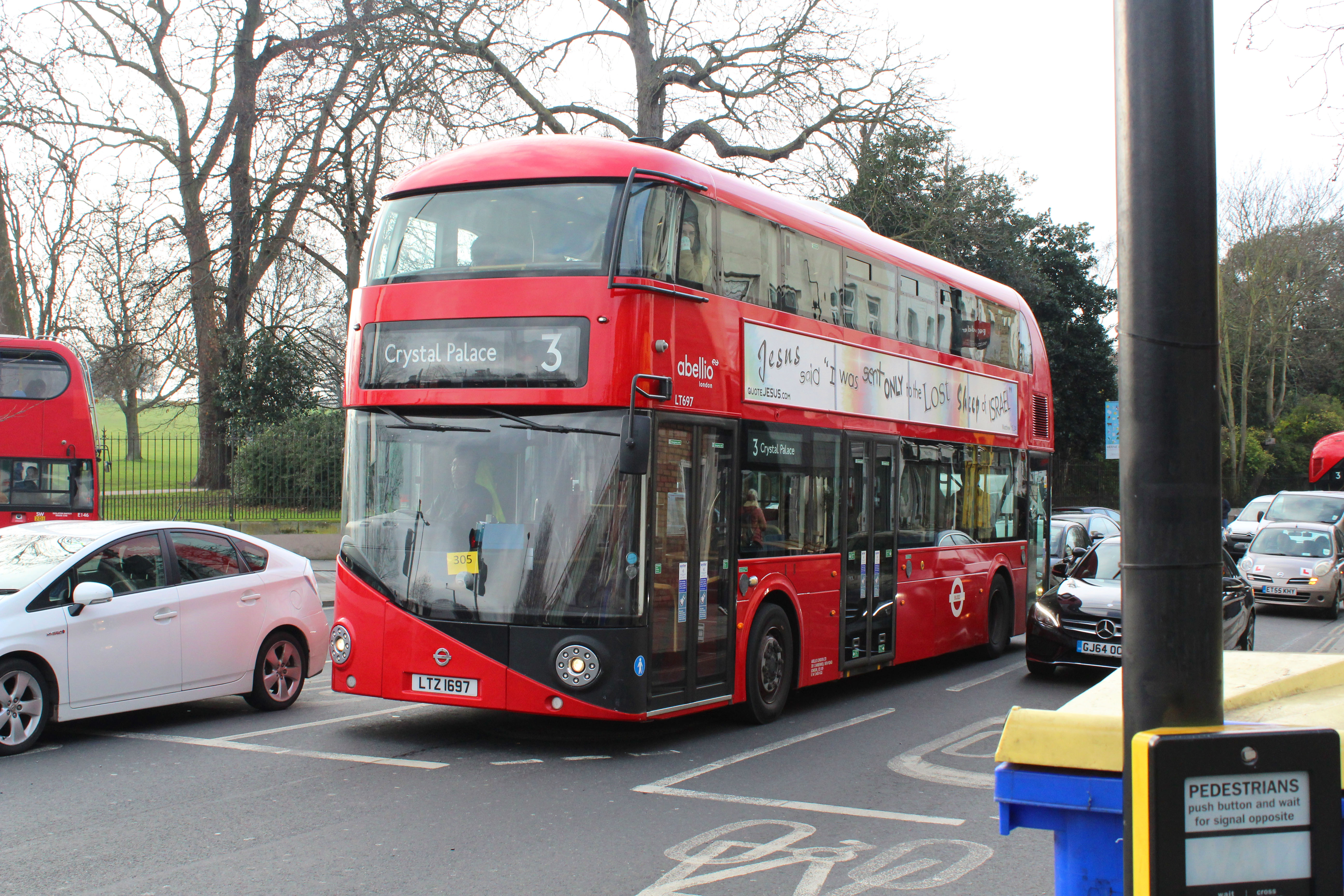 Abellio London New Routemaster LTZ 1967 LT697, Dulwich Road Herne Hill 13.1.18